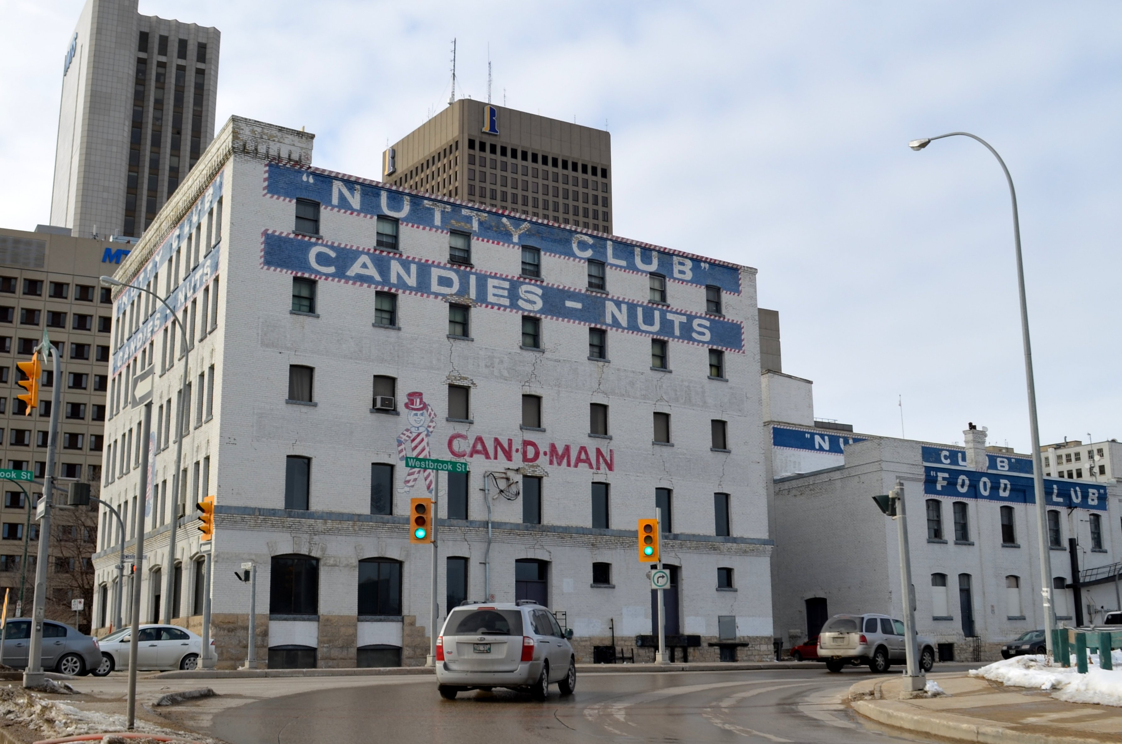 Scott-Bathgate building, 149 Pioneer Ave, Winnipeg MB. Text on building says "Nutty Club", Candies - Nuts, Can-D-Man.